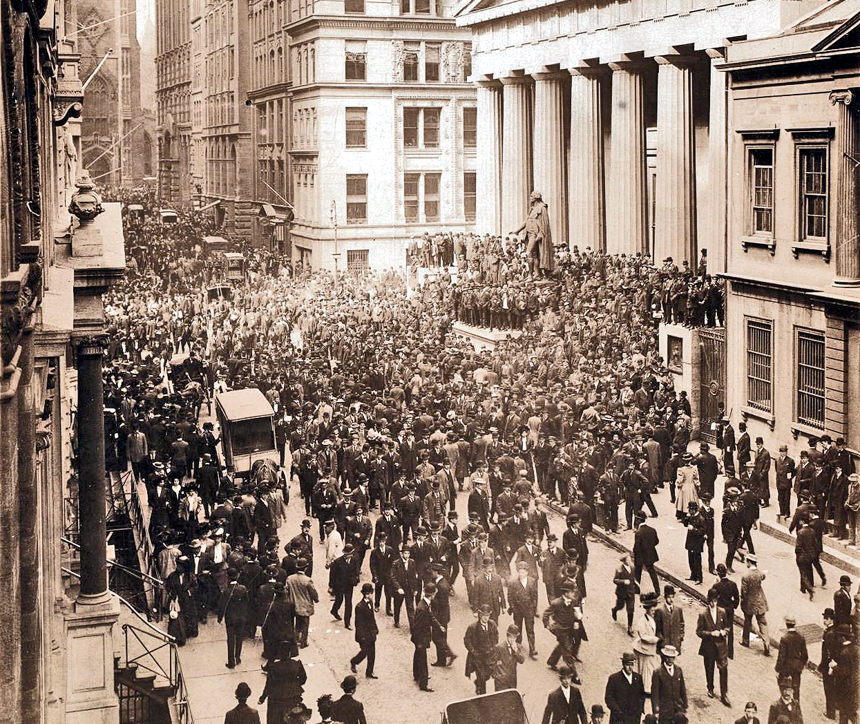 Derived from File:1907 Panic.png